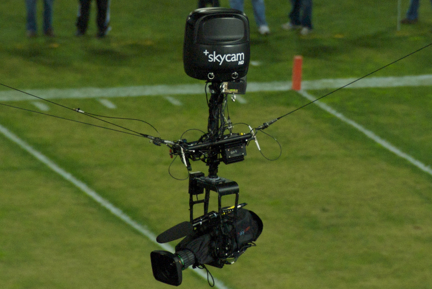 A Skycam HD camera at Stanford Cardinals Stadium